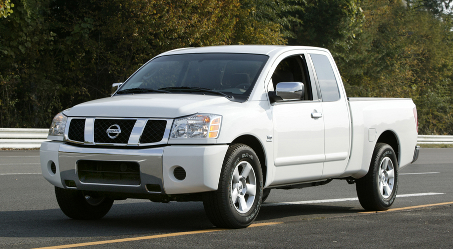 Nissan Titan King Cab '05 (extended cab)